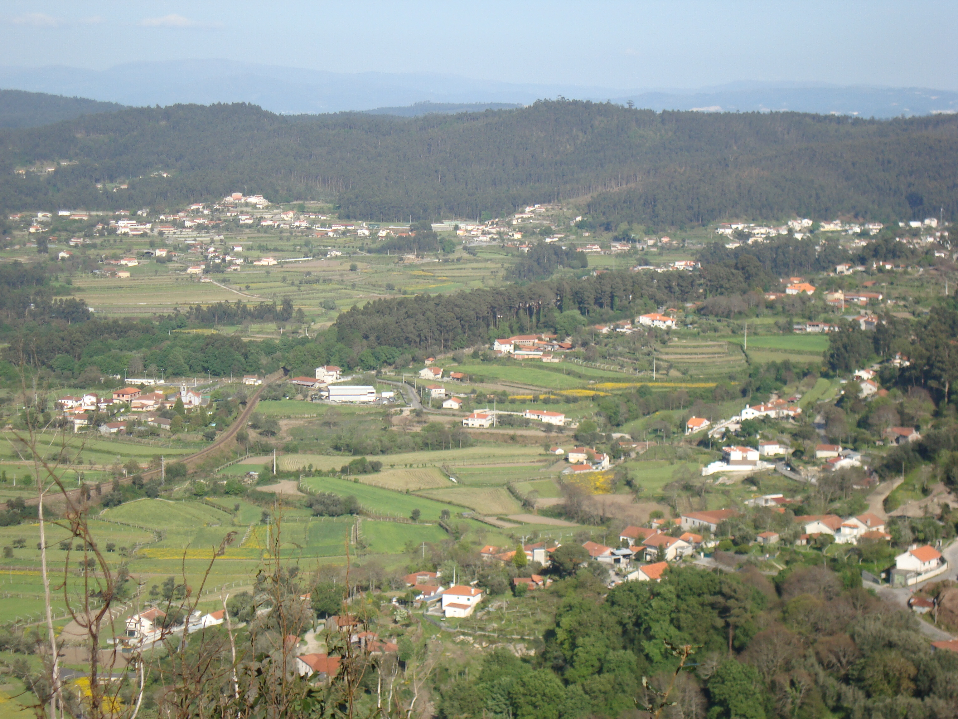 Panoramic